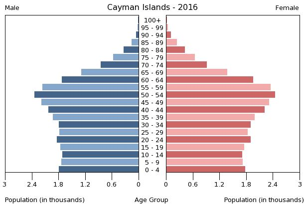 The population pyramid of Cayman Islands illustrates the age and sex structure of population and may provide insights about political and social stability, as well as economic development. The population is distributed along the horizontal axis, with males shown on the left and females on the right. The male and female populations are broken down into 5-year age groups represented as horizontal bars along the vertical axis, with the youngest age groups at the bottom and the oldest at the top. The shape of the population pyramid gradually evolves over time based on fertility, mortality, and international migration trends.